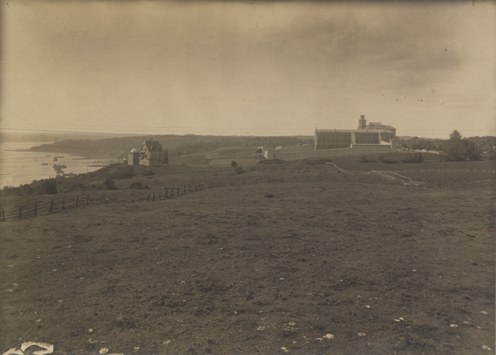 Original caption: “True Battlefield, Plains of Abraham.”